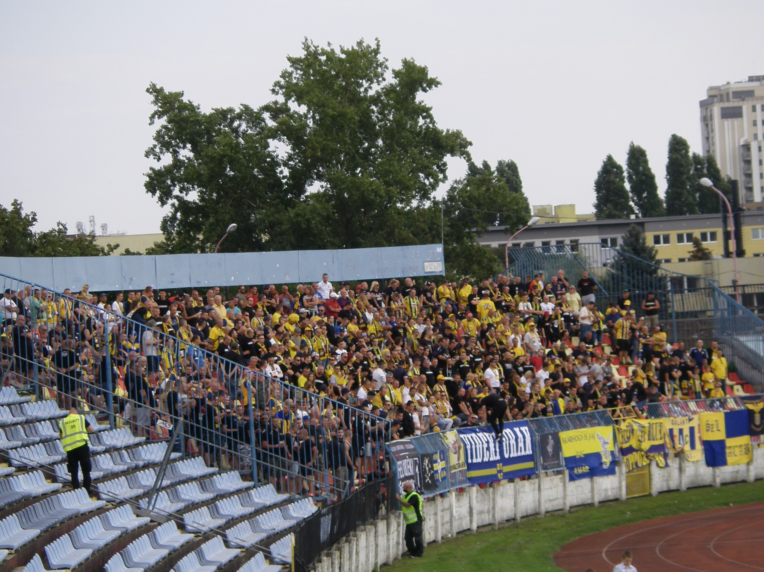 Fans of Dunajská Streda during a match at Slovan Bratislava on September 15, 2018 which Slovan did win 3-2 as championship leader against Dunajská Streda which travelled to Bratislava as runner-up.